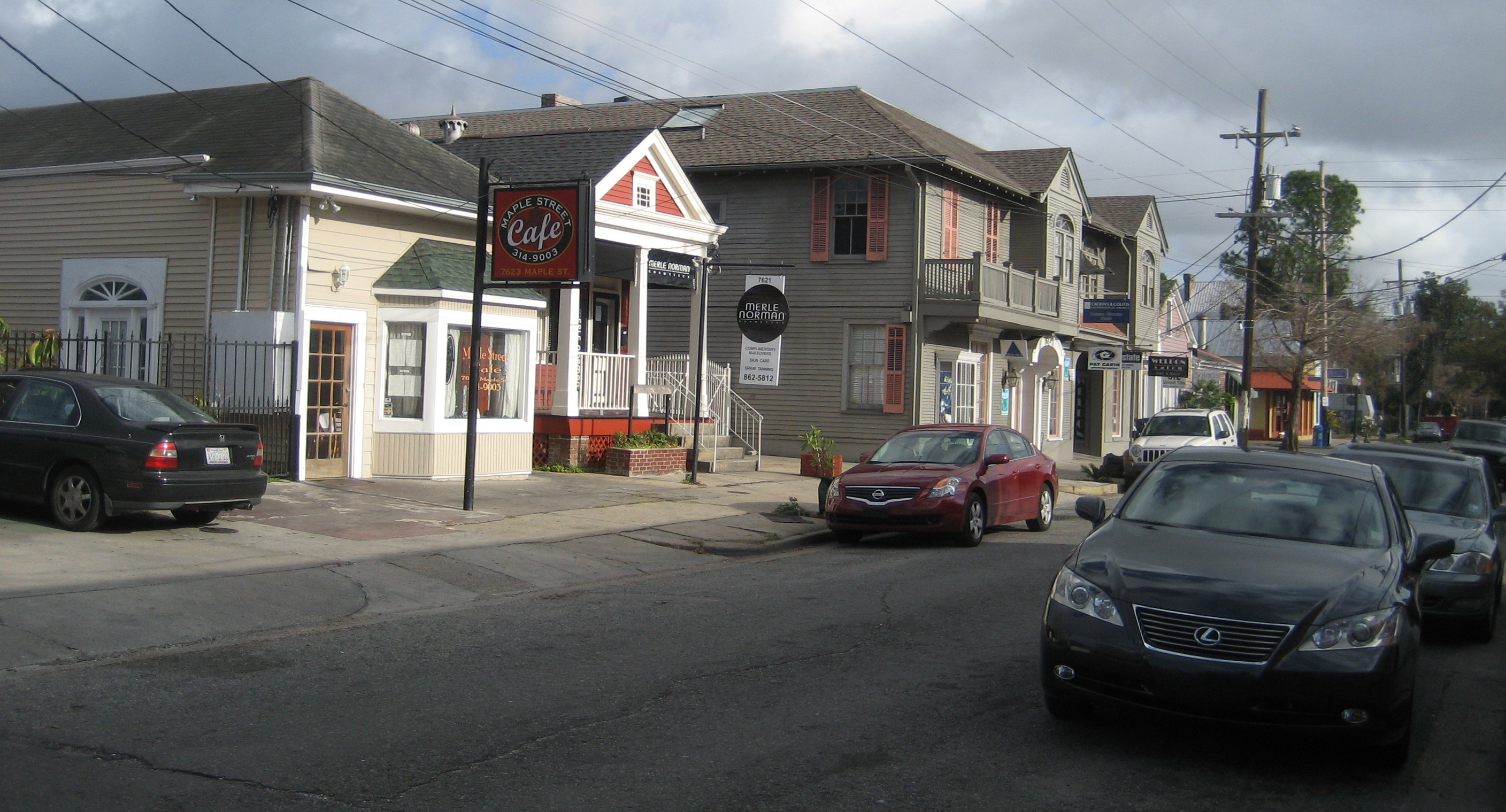 New Orleans: Maple Street, Carrollton neighborhood, mixed small business and residential section. View is looking downriver in the 7600 block. This view is in the same block as Image:MapleStAp05.jpg, looking in the opposite direction.